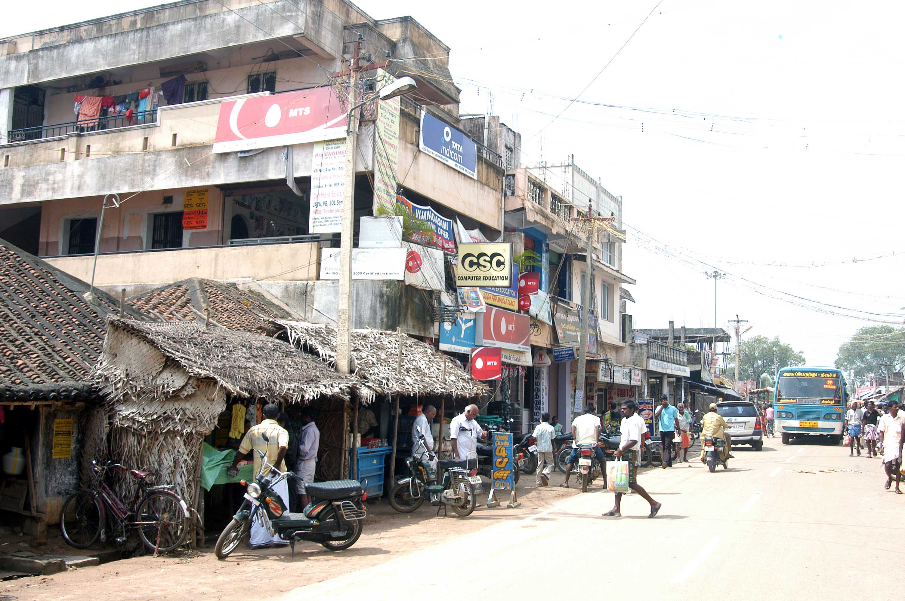 Busy Noon Day in Bus Stand Road, Jayankondam